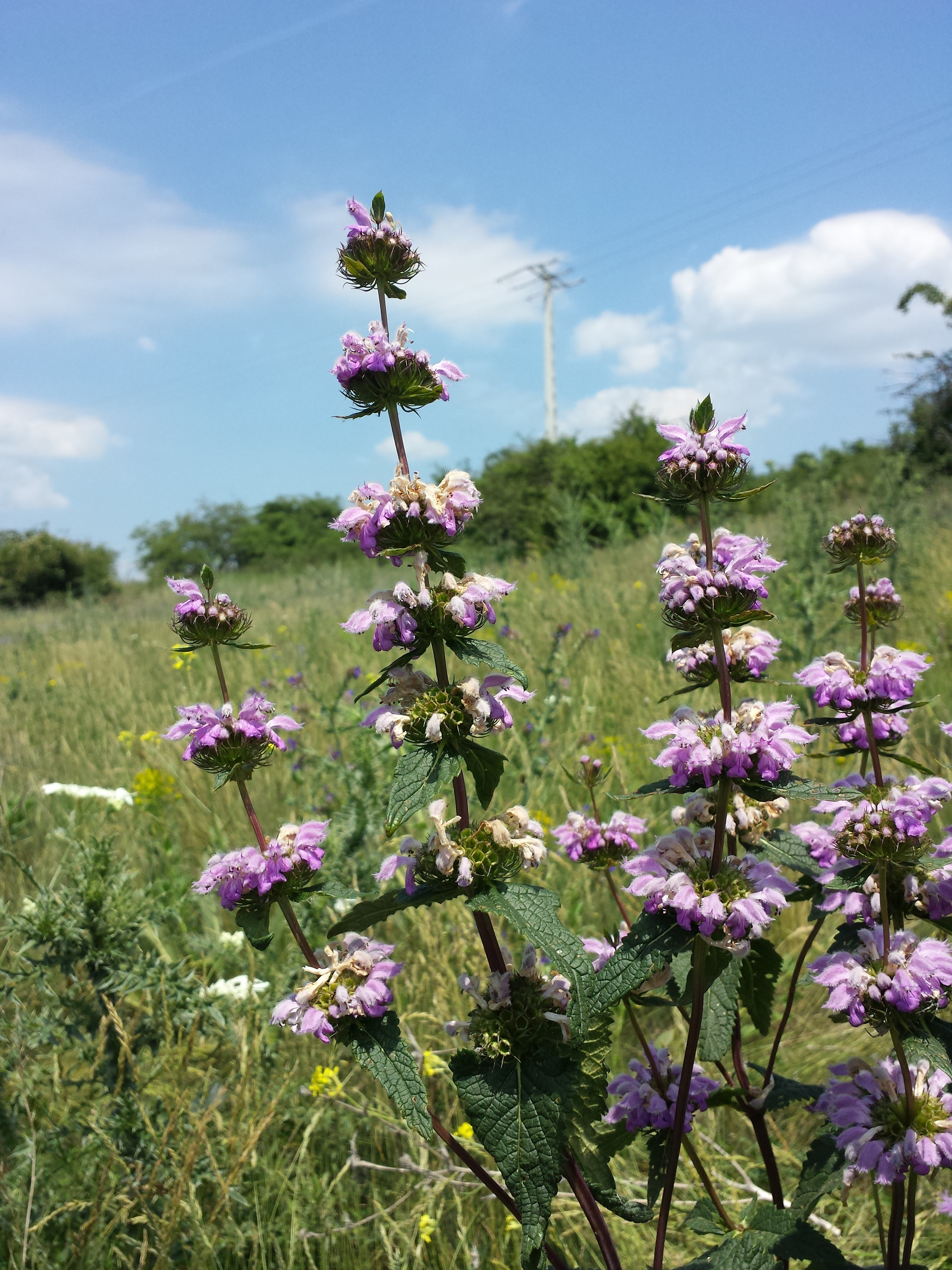 Inflorescences Taxonym: Phlomis tuberosa ss Fischer et al. EfÖLS 2008 ISBN 978-3-85474-187-9; det. Gergely Király 2015-06-07 Location: Veszprém County, Hungary - ca. 200 m a.s.l. Habitat: dry grassland